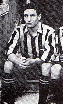 Carlos Arturo Lett while playing for Alumni